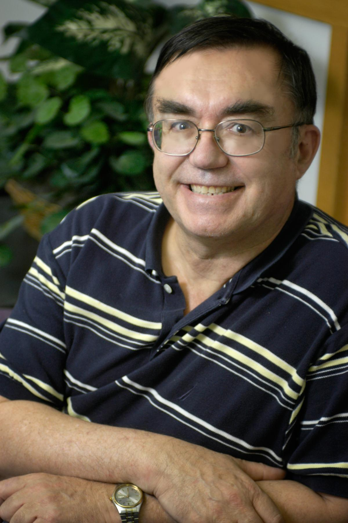 Photo of Geoffrey C Fox